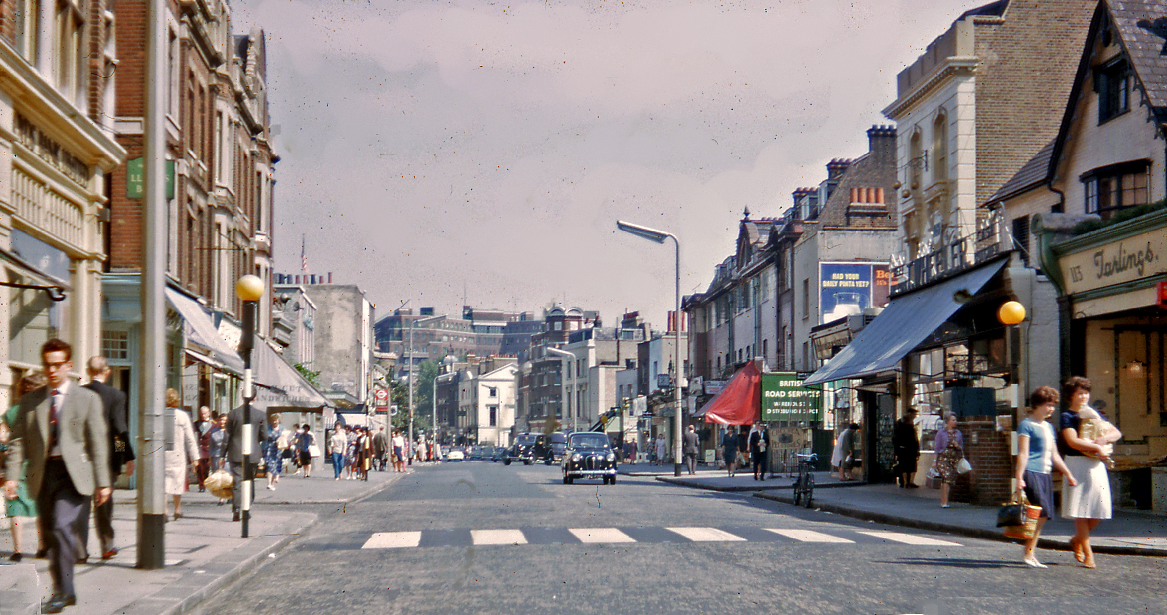 Chelsea: Kings Road, near Sloane Square, 1962 View NE, towards Sloane Square, at Radnor Walk - taken from car.